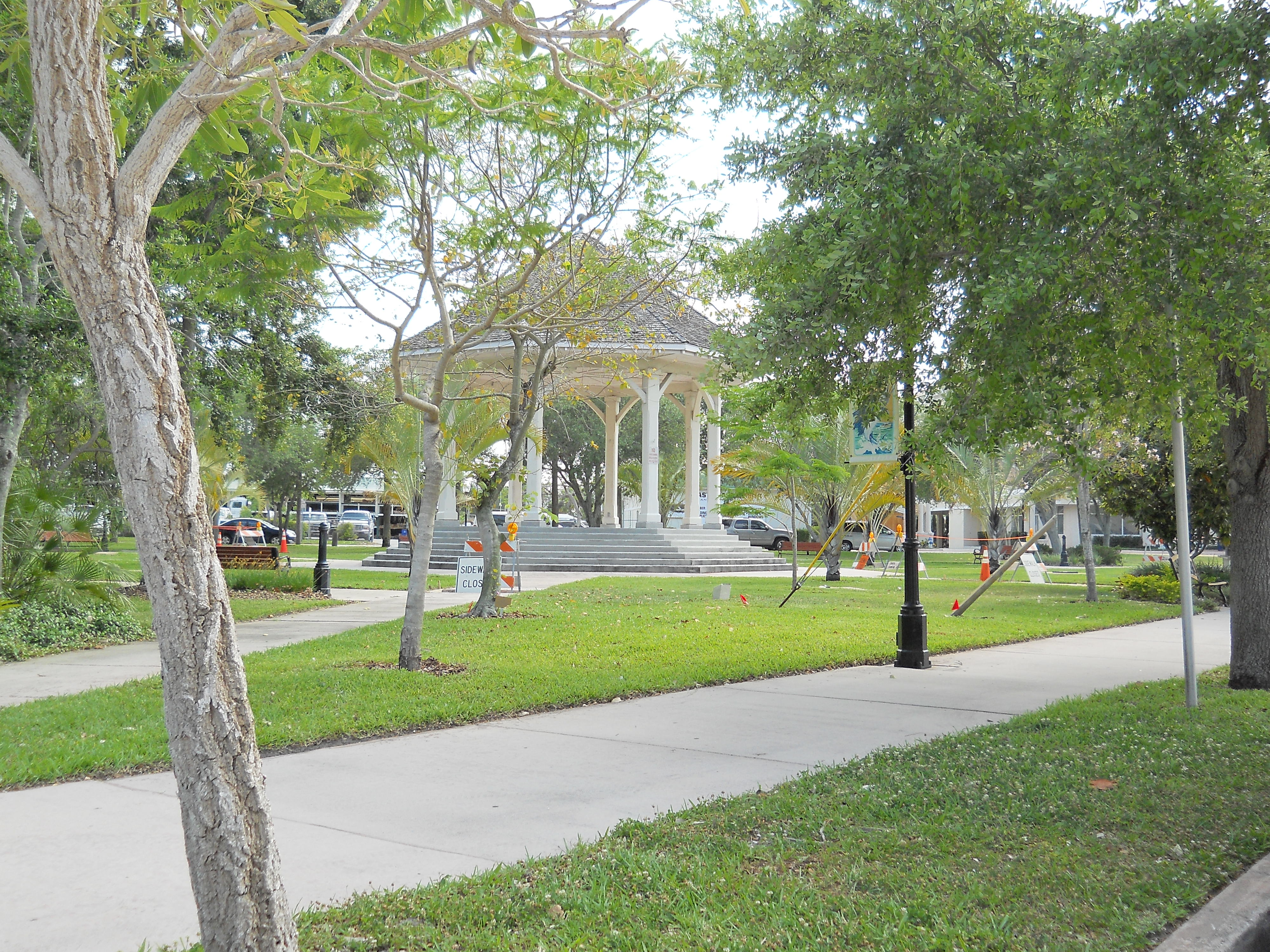 Martin County Courthouse Complex, Stuart, Florida, Gazebo to west of Old Martin County Courthouse